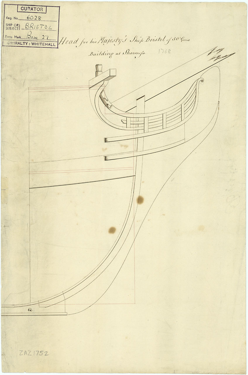 Bristol (1775) Scale: 1:48. Plan showing the starboard side of the head for Bristol (1775), a 50-gun Fourth Rate, two-decker, building at Sheerness Dockyard. The plan does not provide much information on the timbers used for the construction of the beakhead. BRISTOL 1775